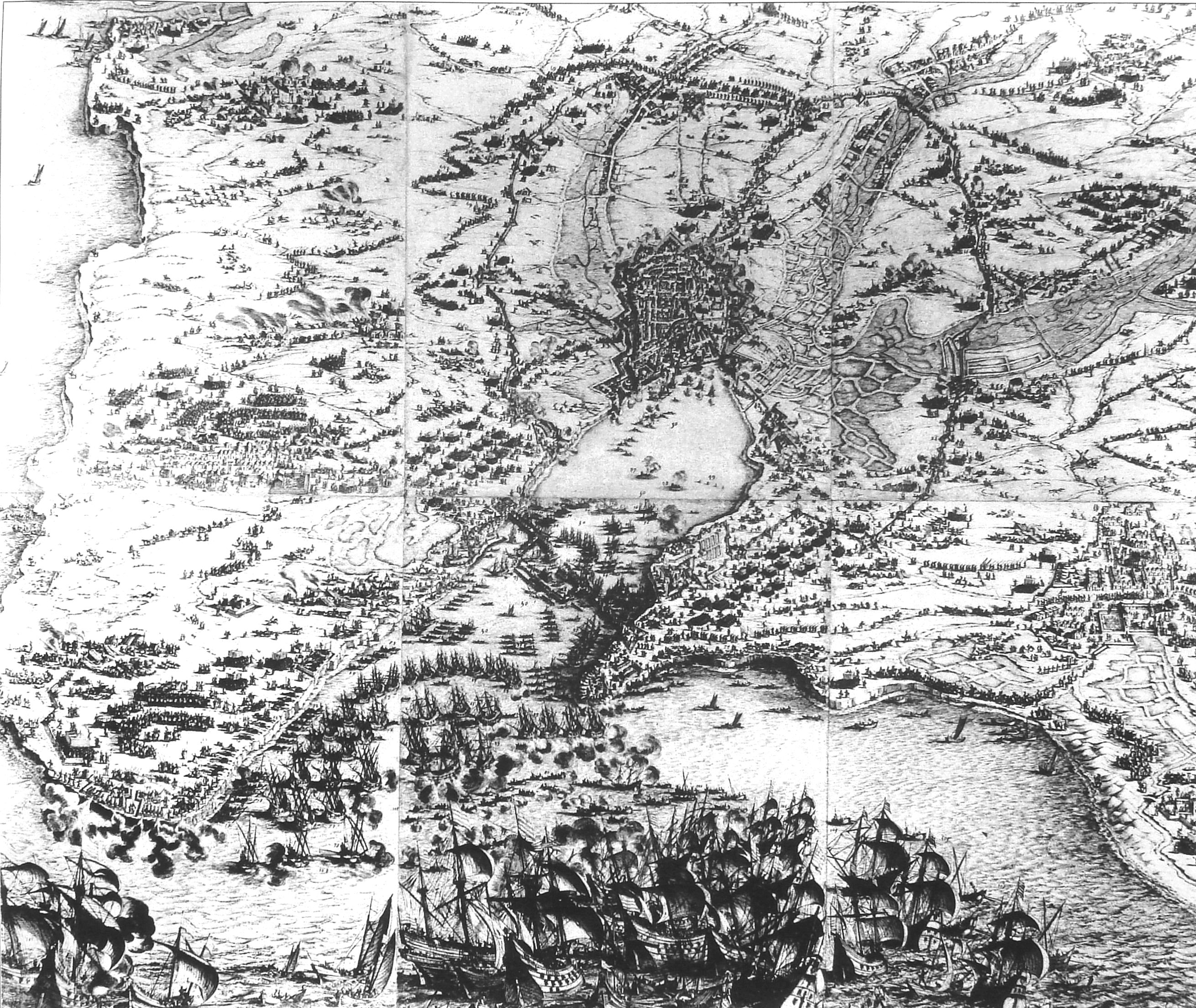 Siege_of_La_Rochelle_by_Jacques_Callot_1630